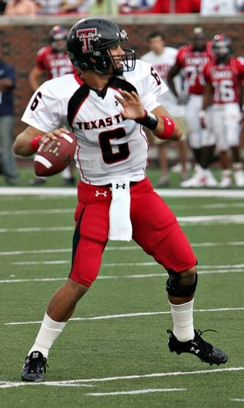 Photo credit: Jay Davis Graham Harrell. From Texas Tech Red Raiders @ SMU Mustangs on Augsust 1, 2007. The Red Raiders defeated the Mustangs, 49-9.